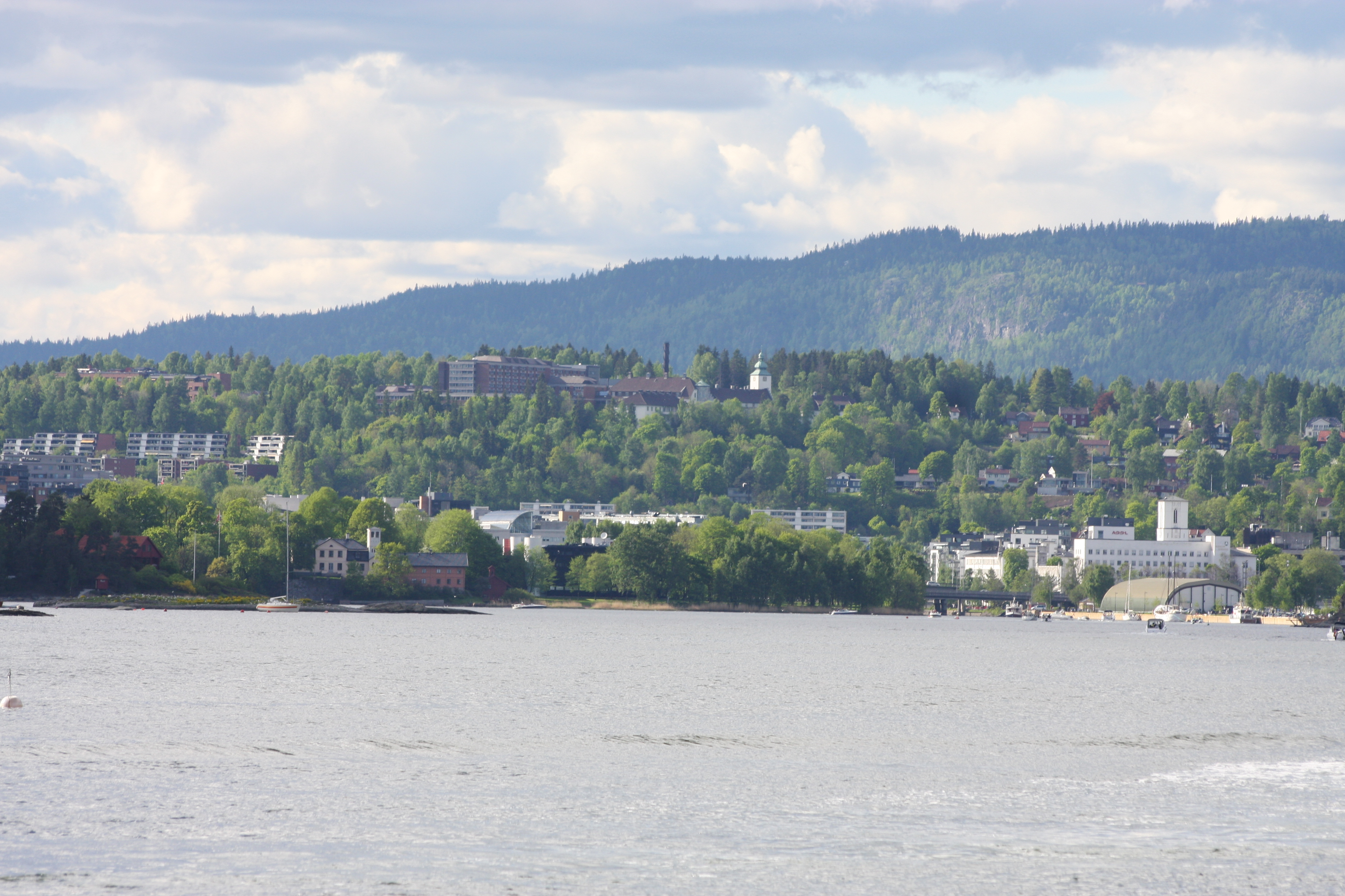 Sandvika (Bärum), Akershus, in Norway.